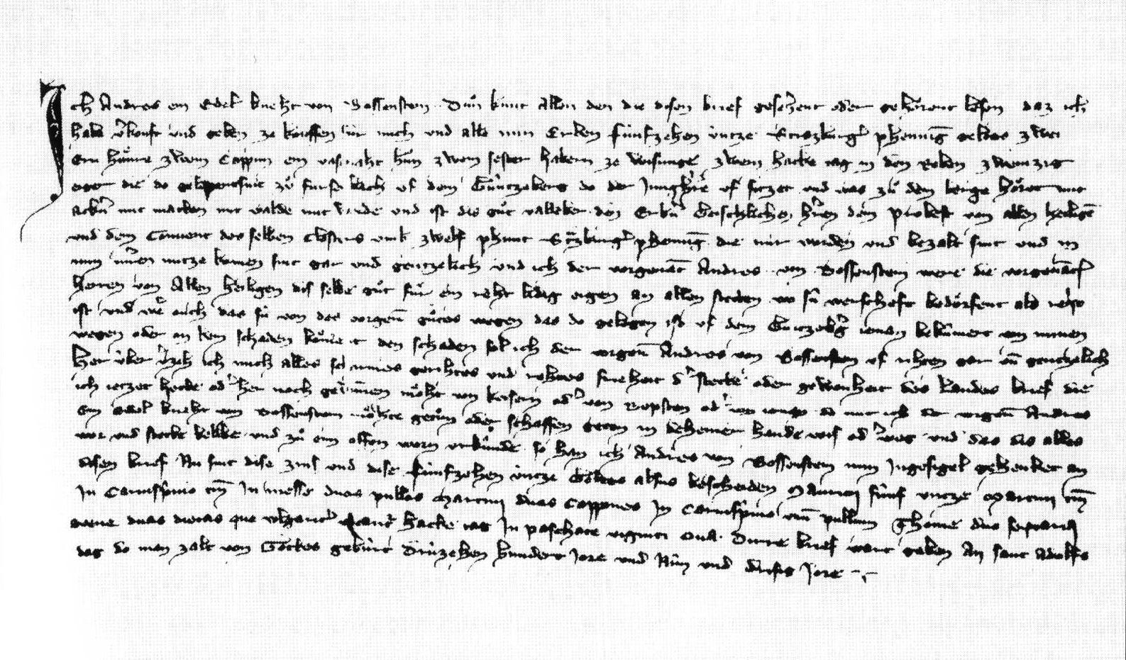 All Saints' Abbey. Reproduktion einer Urkunde zum Kauf des Günzberghofes durch Allerheiligen.